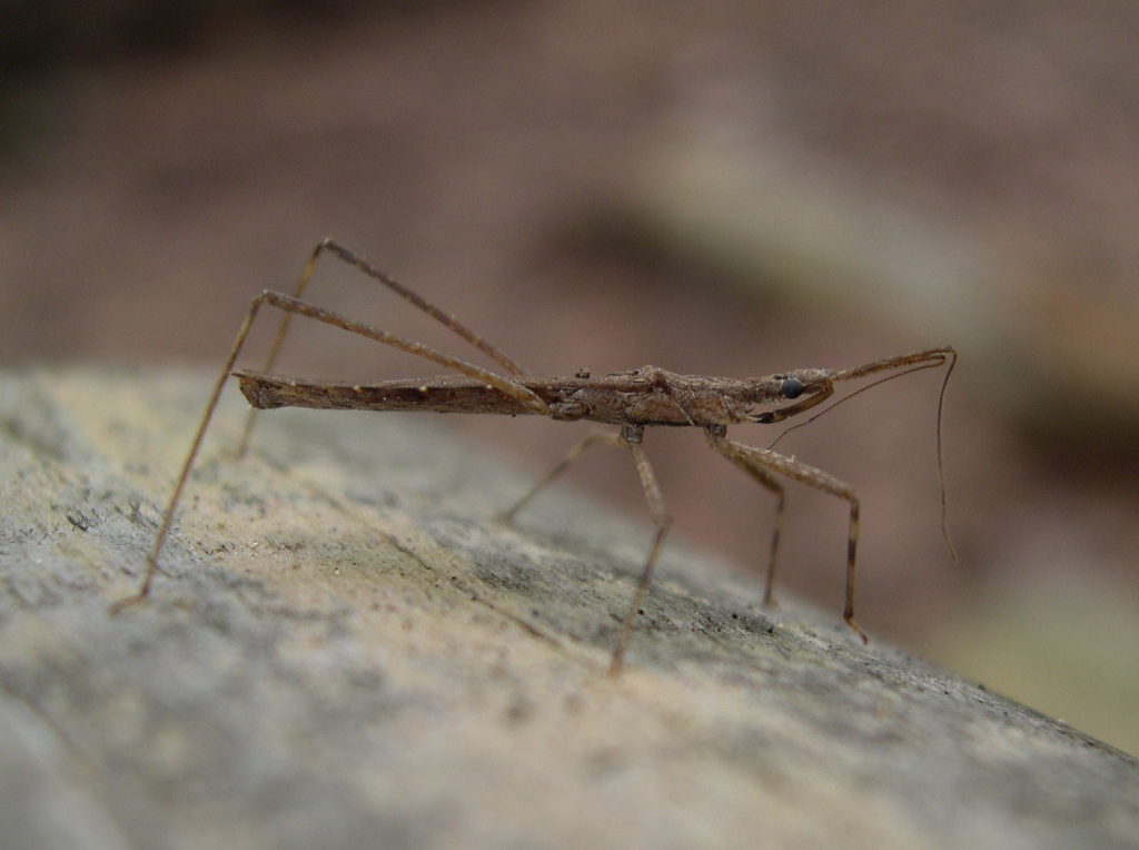 Pygolampis cognata Horváth, 1899 (Hemiptera: Heteroptera: Reduviidae: Stenopodinae) Body length: about 16mm Range of the species: East Siberia, Japan, Taiwan. Loc: Yokohama, Honshu, Japan. ホソサシガメ（カメムシ目：サシガメ科：トビイロサシガメ亜科）。全長：約16mm。横浜市にて撮影。 種の分布：シベリア東部、日本（北海道-沖縄）、台湾。